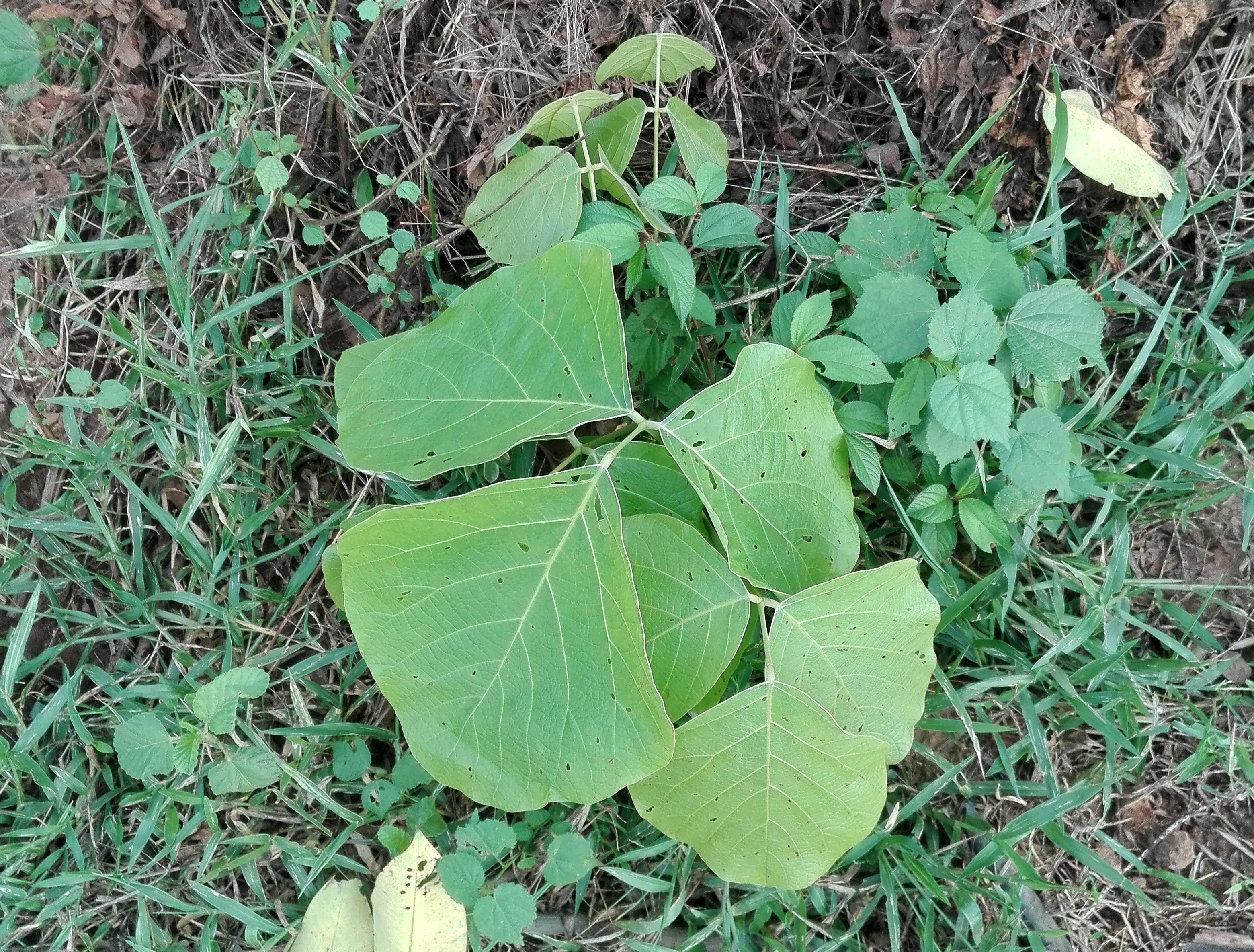 (Butea superba) sapling in the Eastern Ghats near Samedha in Visakhapatnam district